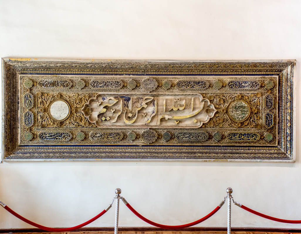 carved completely out of marbel